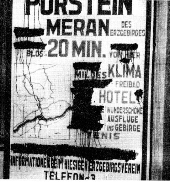 Disposing of the Czech inscriptions Sudeten Germans